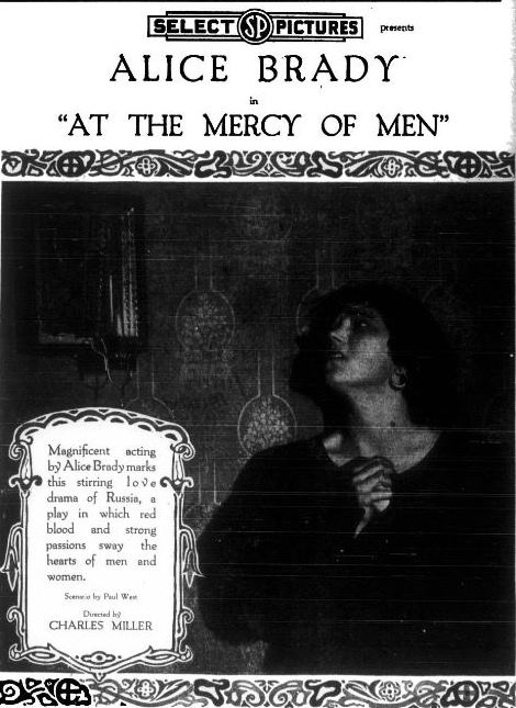 Advertisement for the American drama film At the Mercy of Men (1918) with Alice Brady, on page 43 of the May 3, 1918 Variety.